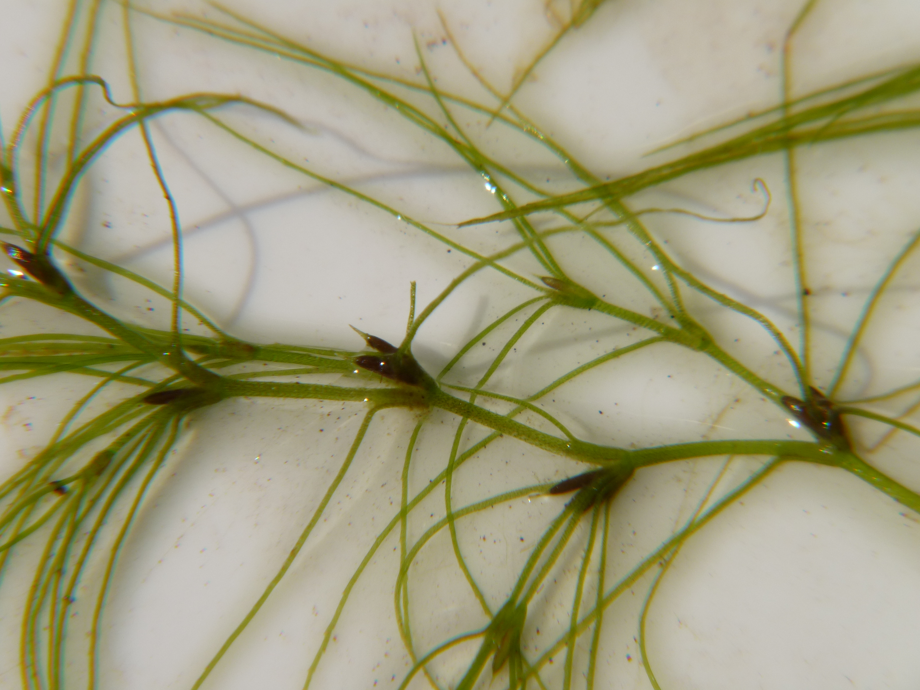 Najas gracillima (Najas japonica)